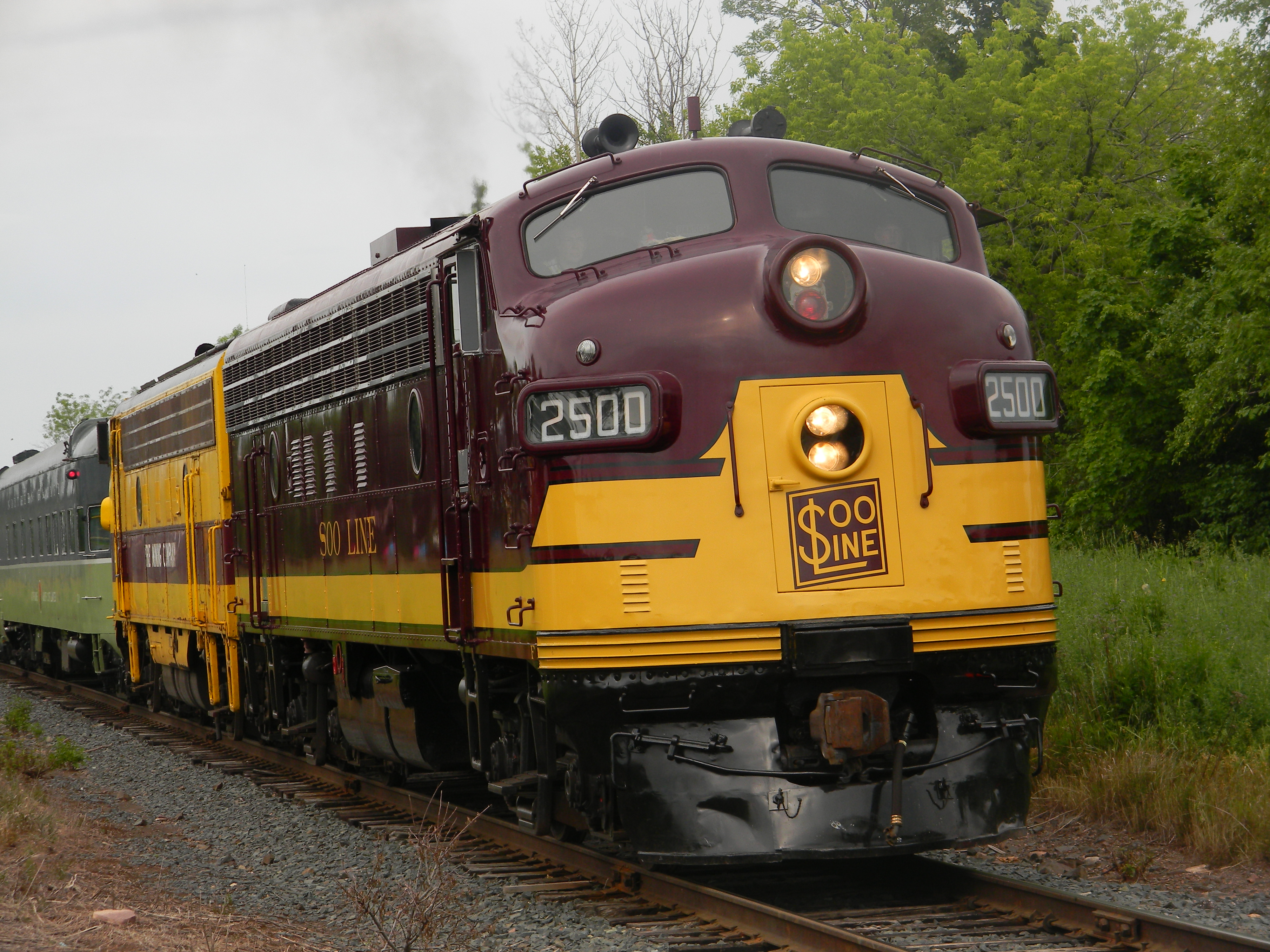 Soo Line 2500 pulling a special train in Duluth